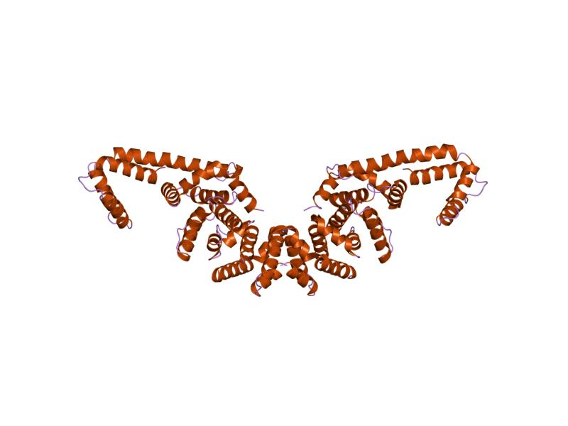 Cartoon representation of the molecular structure of protein registered with 2bap code.